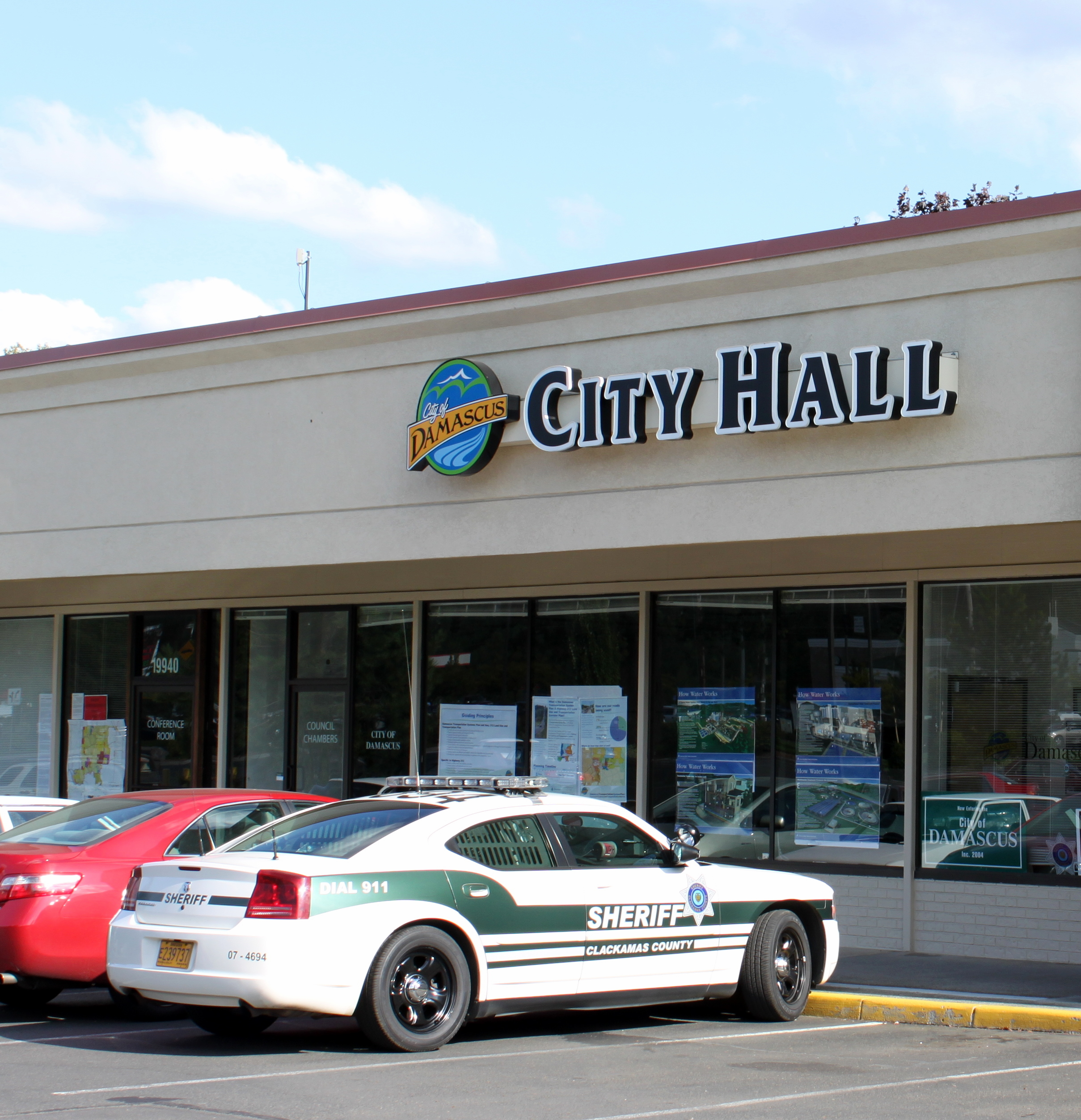 City Hall in Damascus, Oregon, in a strip mall.